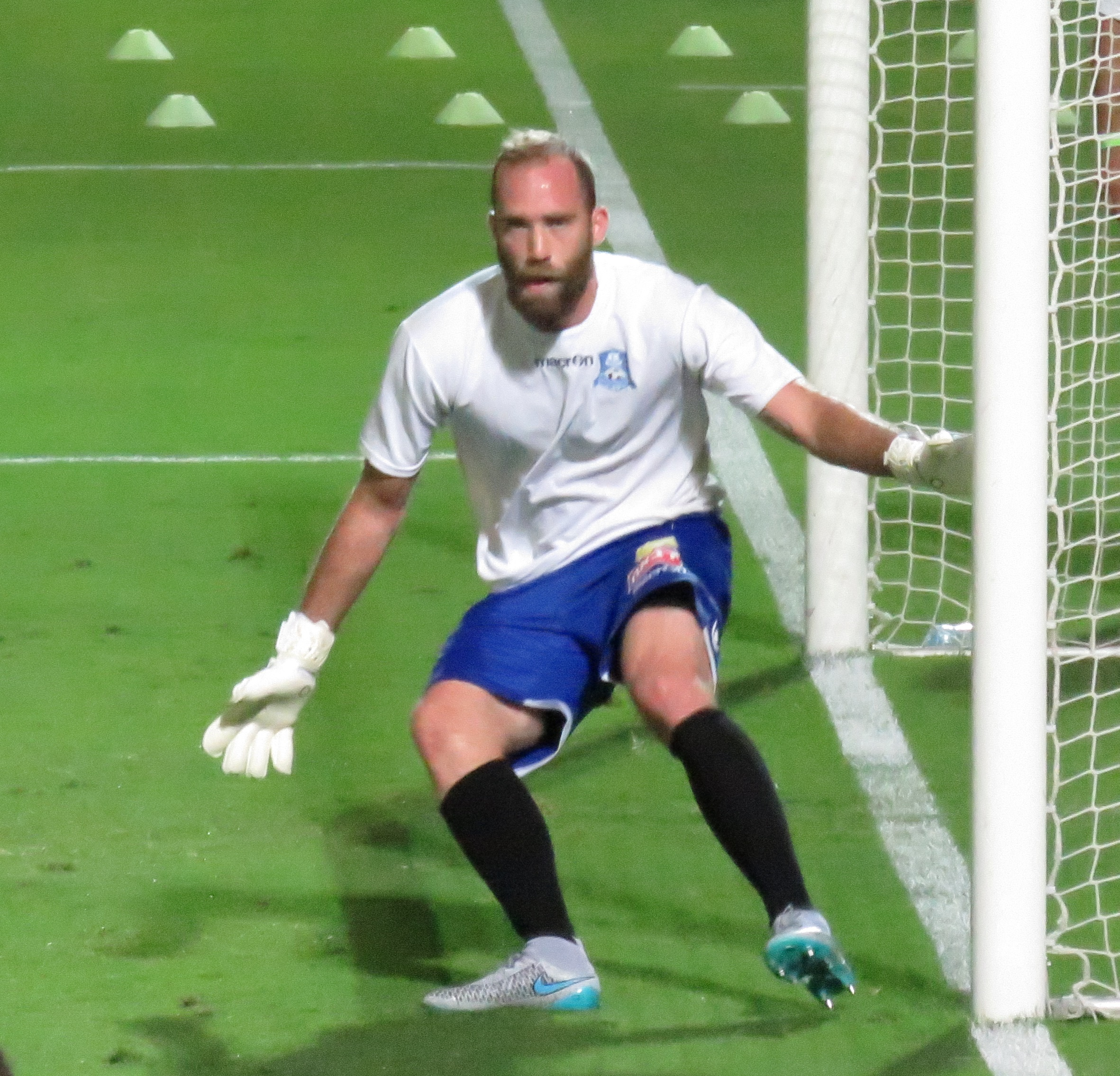 Bnei Yehuda Tel Aviv vs. Hapoel Acre - August 31, 2015